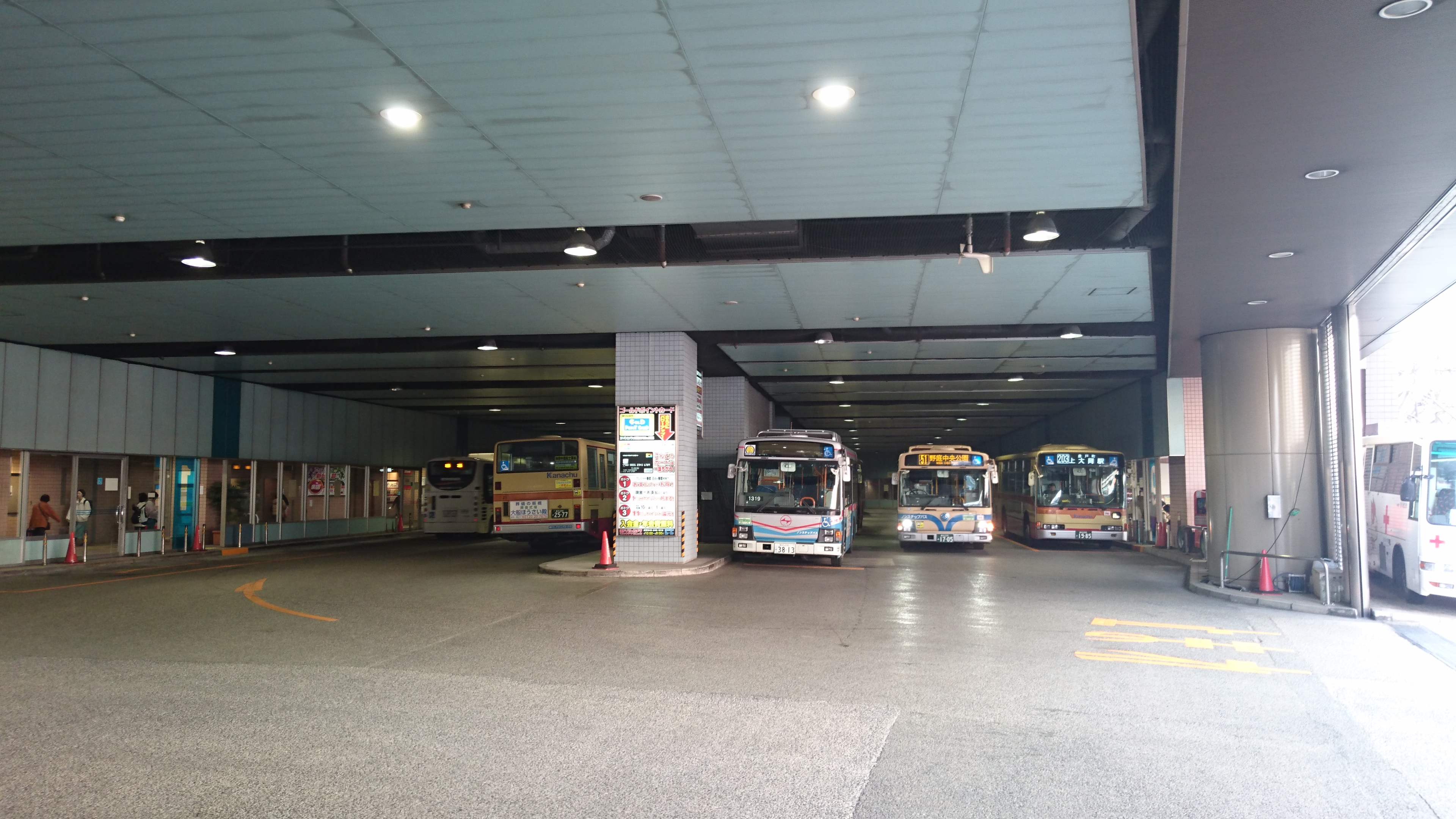 Kamiōoka Station bus station